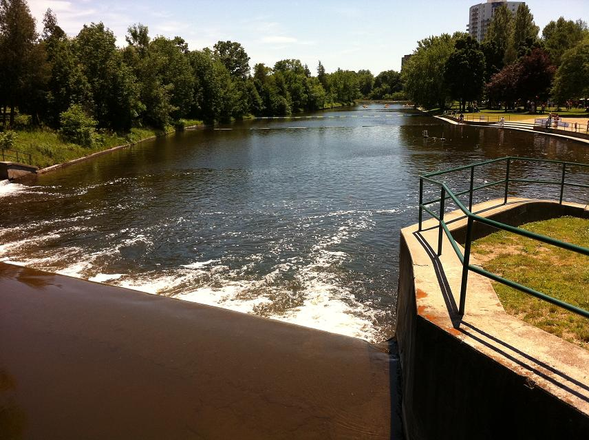 Picture of the Riverside Park in Guelph, Ontario. Taken for a university project.